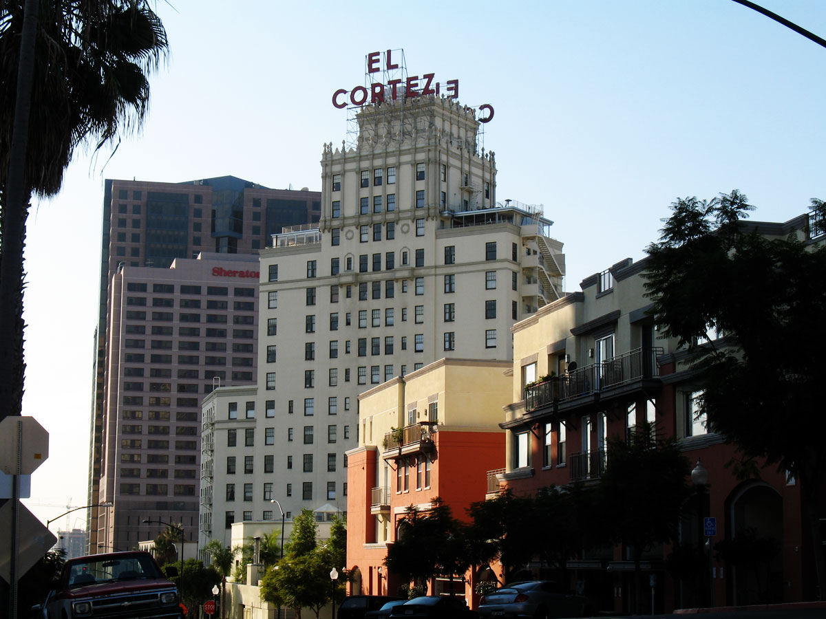 Formerly El Cortez hotel, now a condominiums. The building sits on a slight hill at the north end of downtown, so once upon a time it was the most prominent sight in the skyline.